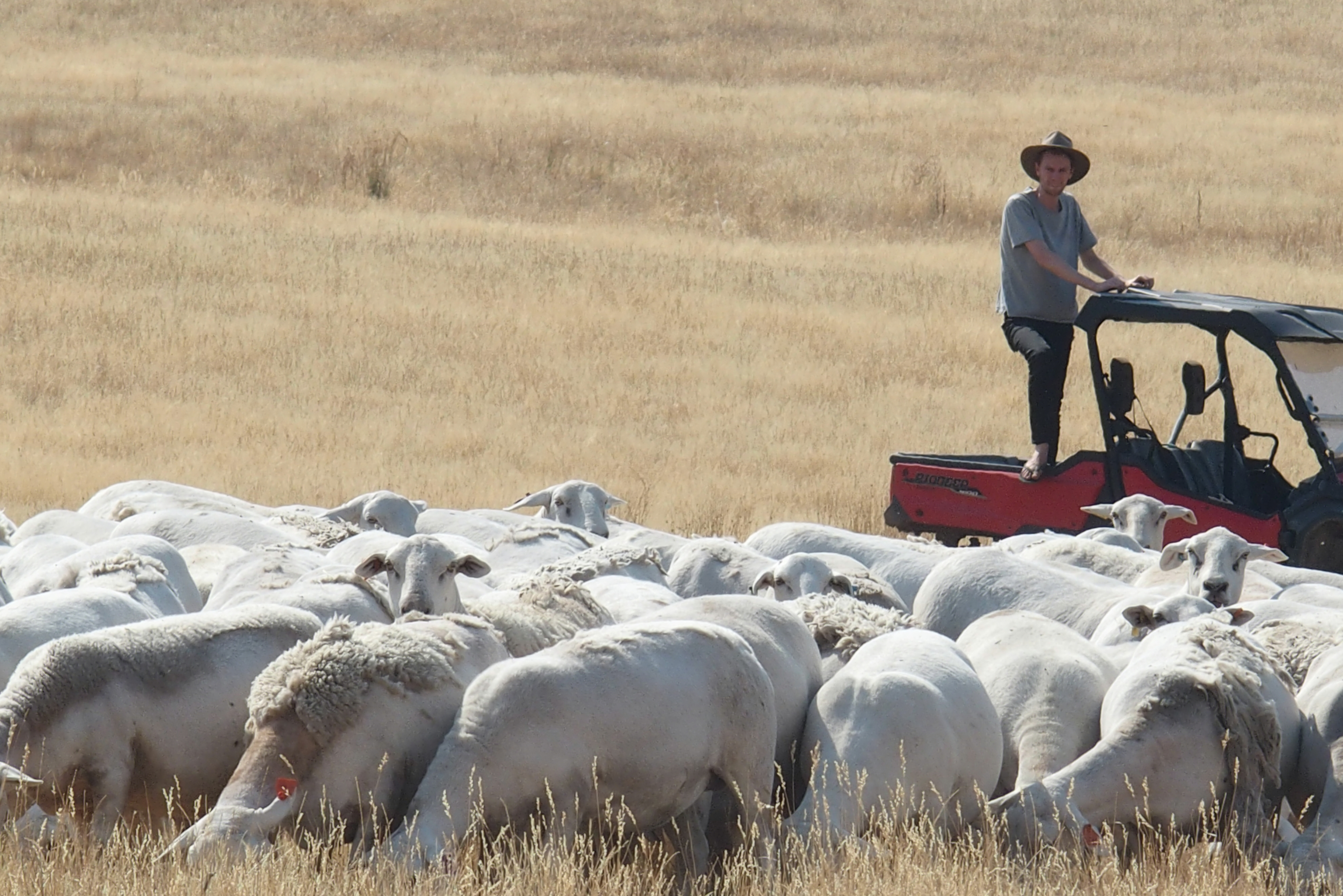 The Australian White is a new hair sheep breed comprising among others the White Dorper sheep. These are suited to the hot Australian climate.